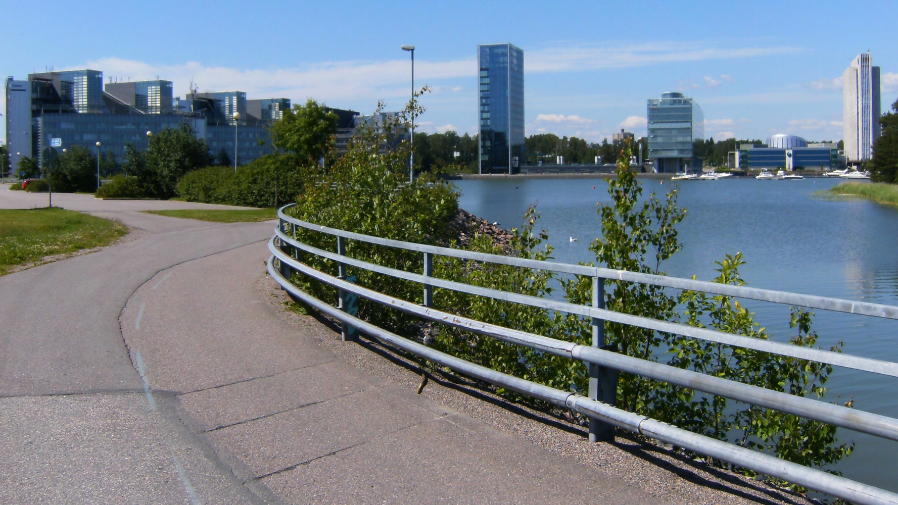 Keilalahti, Espoo, Finland